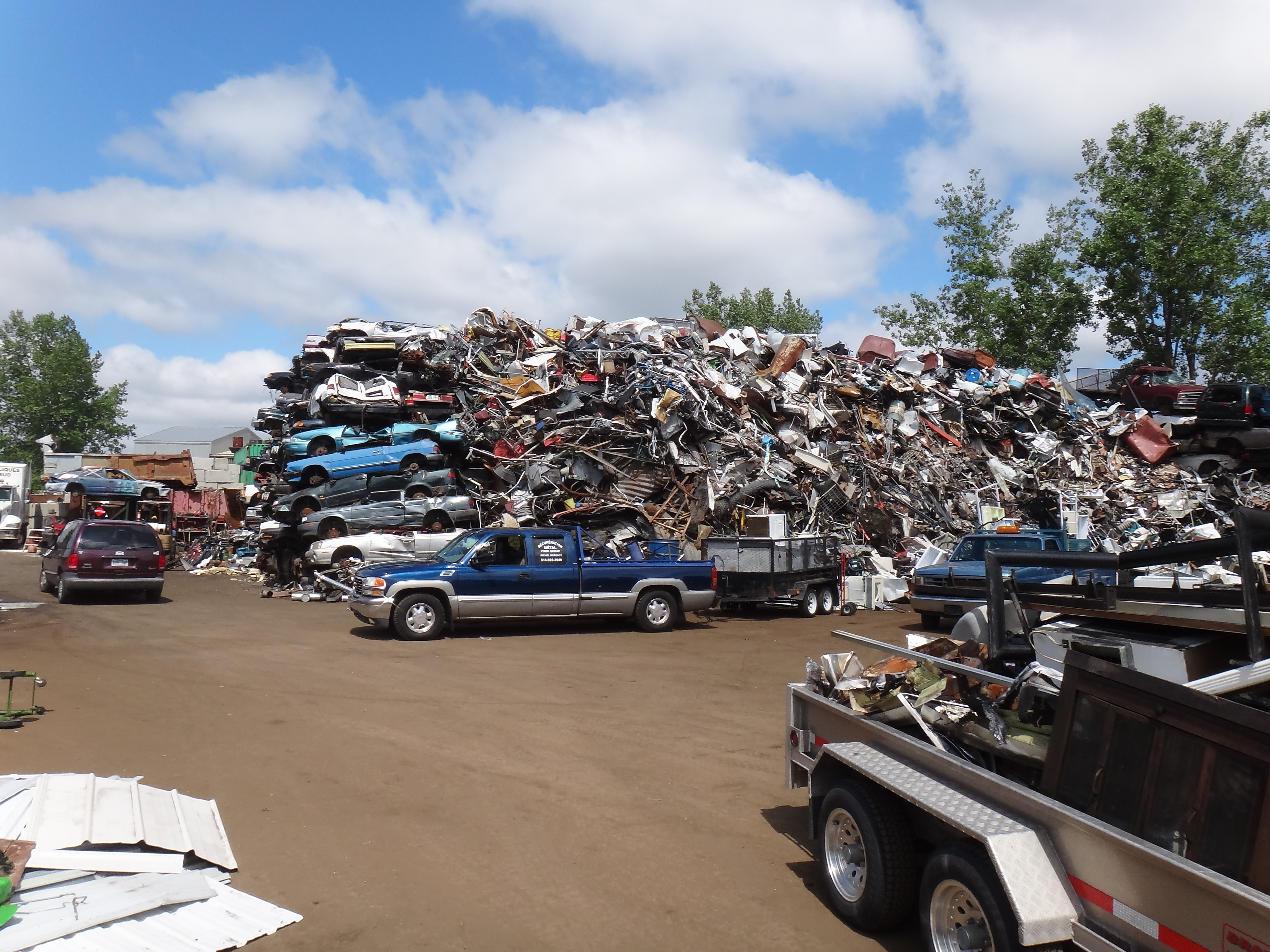 Industrial and domestic scrap metal junk yard, Saint-Mathieu-De-Beloeil, Quebec